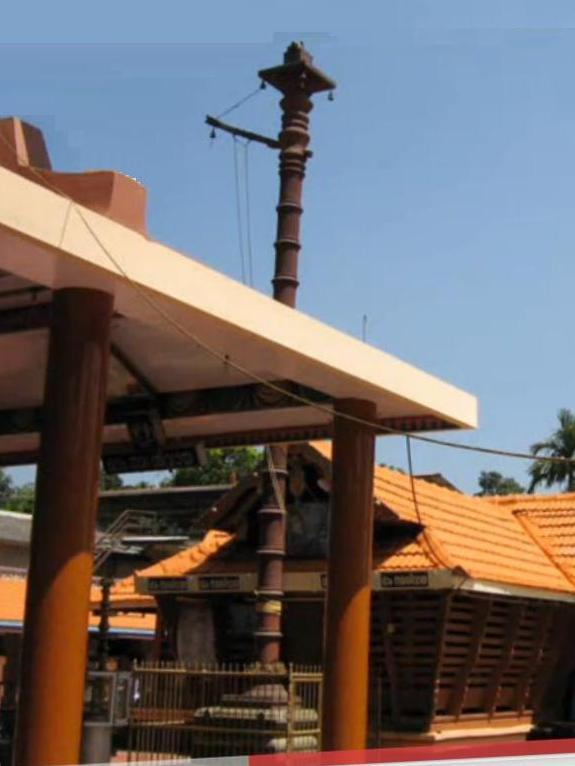 Thodupuzha kanjiramattom Siva Temple flagmast